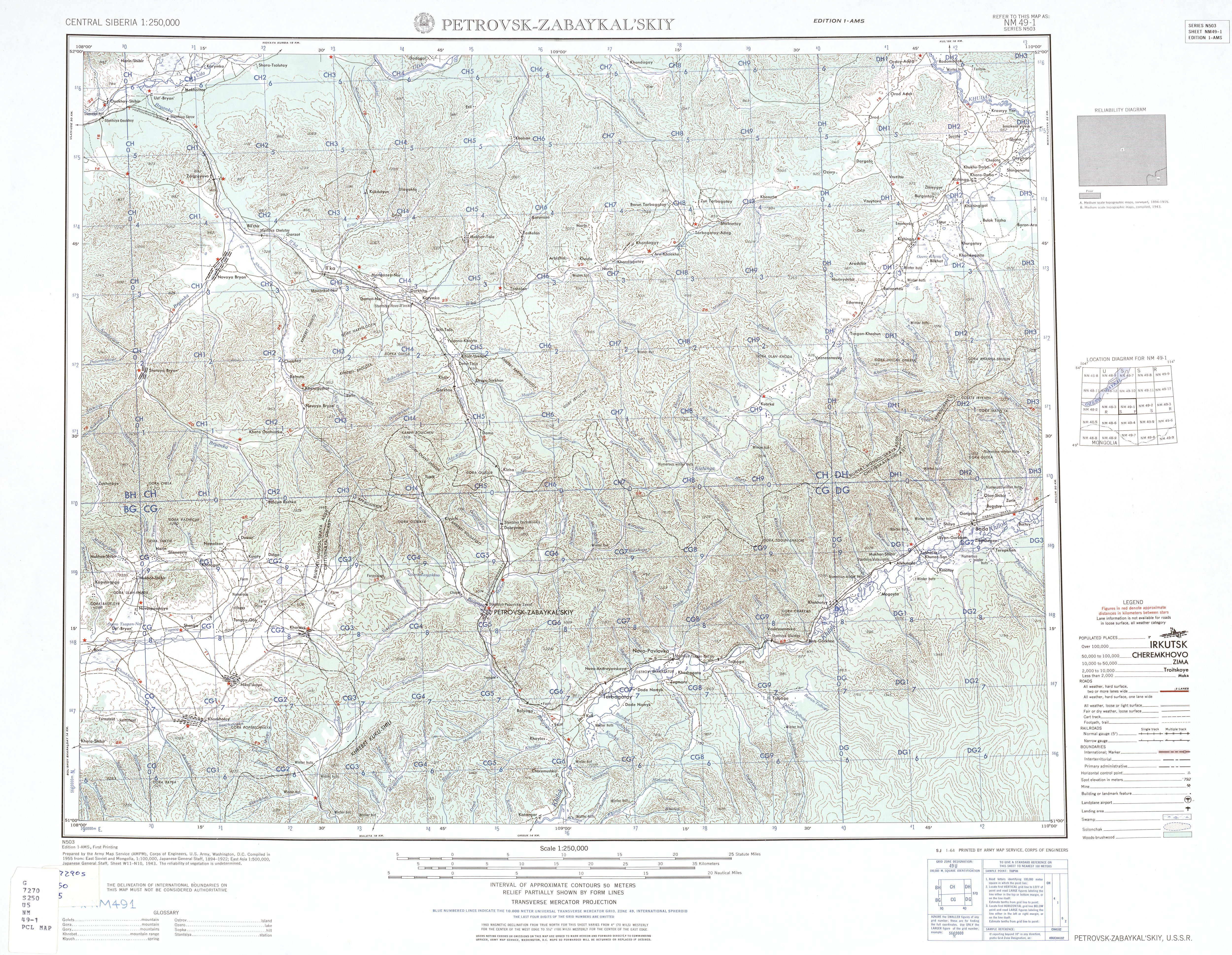 List from Central Siberia AMS Topographic Maps. Series N503, U.S. Army Map Service, 1955